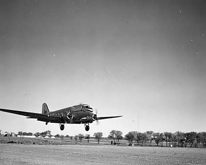 British nuclear tests in Australia - Atomic test site at Maralinga - Kittens and Tim Operation - 43 Mile Camp - July 1955 - Photo 700